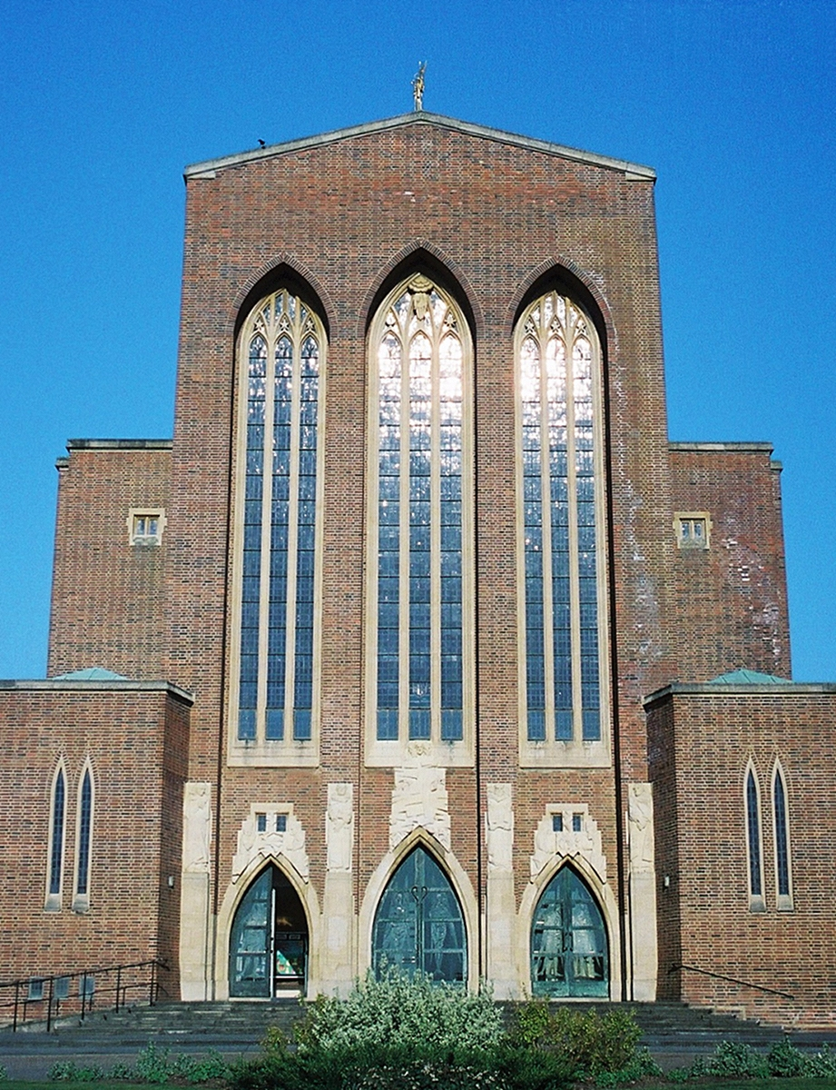 The West front of Guildford Cathedral